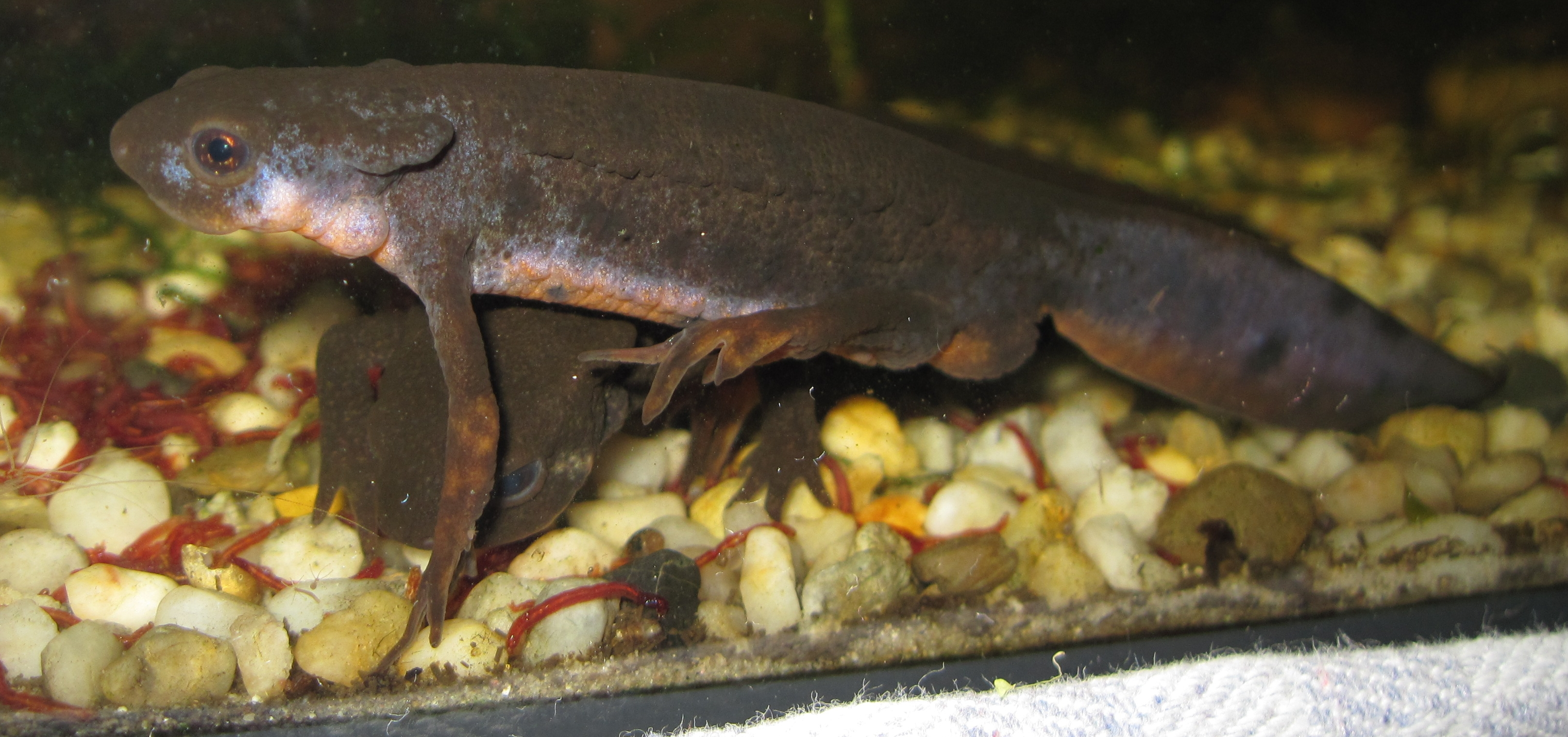 Male of the japanese fire bellied newt, Cynops pyrrhogaster, Origin from northern Honshu.